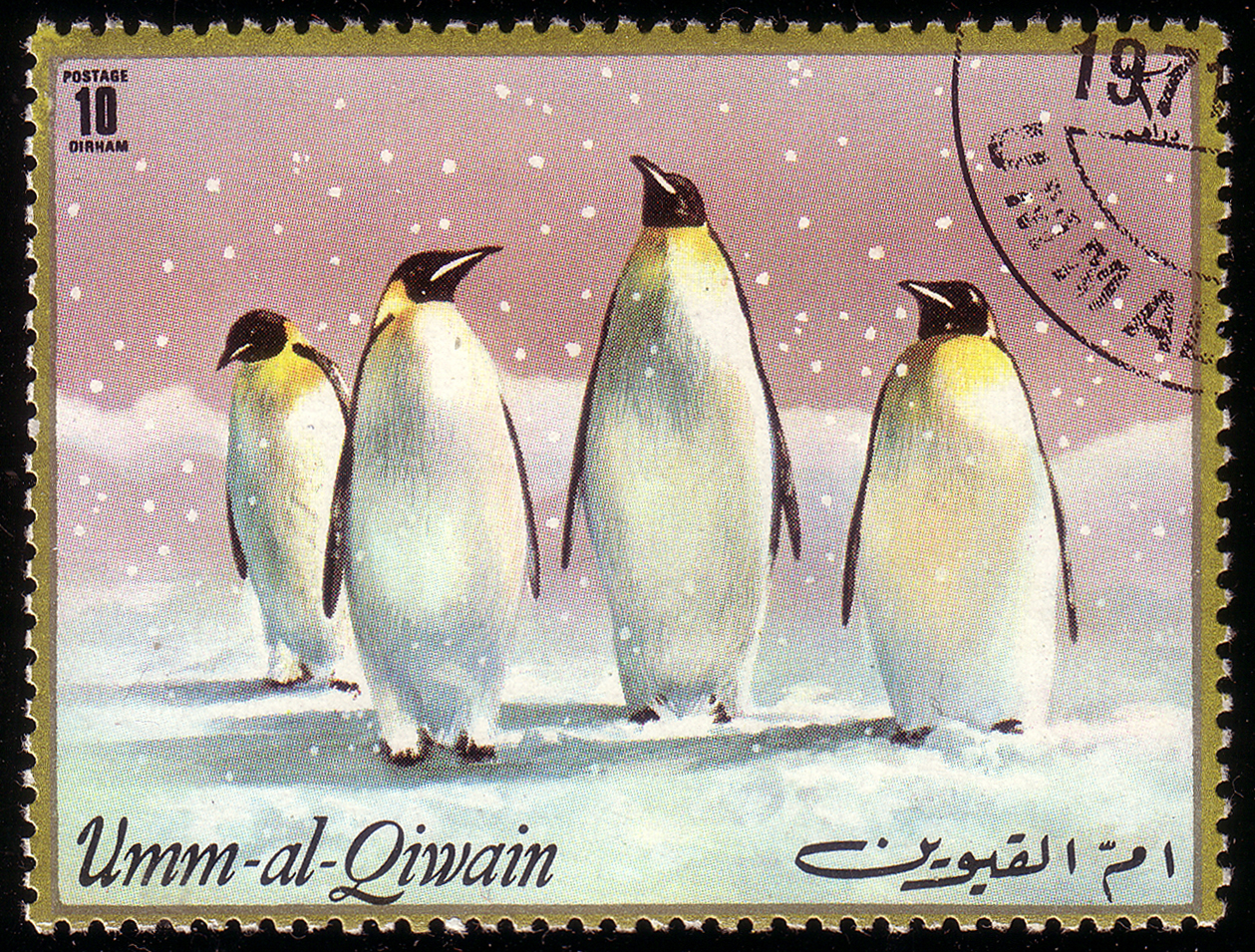 Postage stamp of Umm-al-Qiwain (UAE), penguins, 10 dirhams, 1971